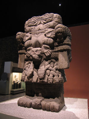 Statue of Coatlicue displayed in National Anthropology Museum in Mexico City.